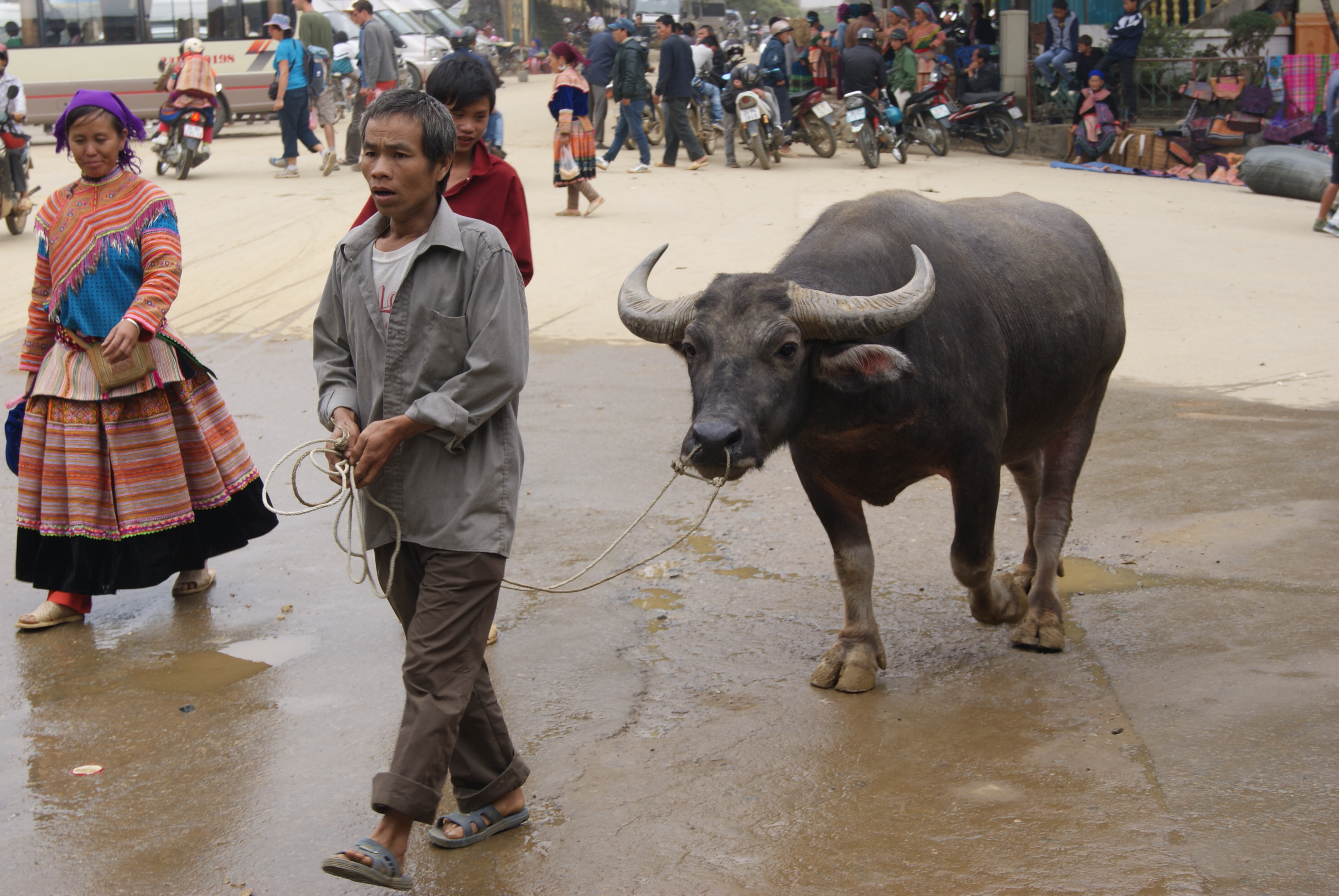 A man with a water buffalo in Bắc Hà, Vietnam.